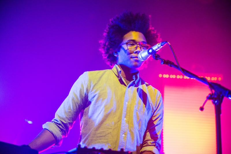 Toro Y Moi performs at his sold out show in Koko, Camden.